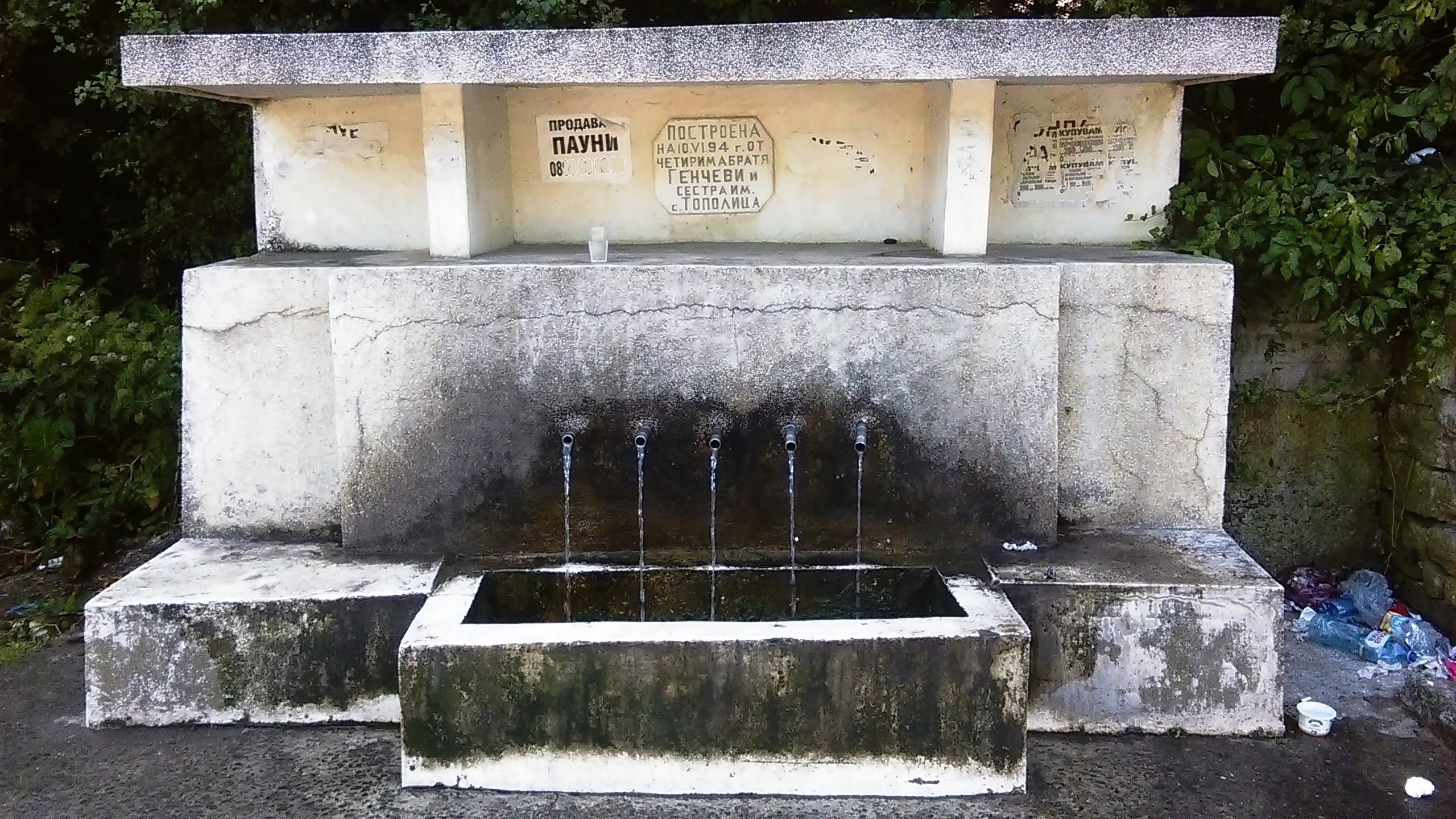 Water fountain in Rishki pass, Bulgaria